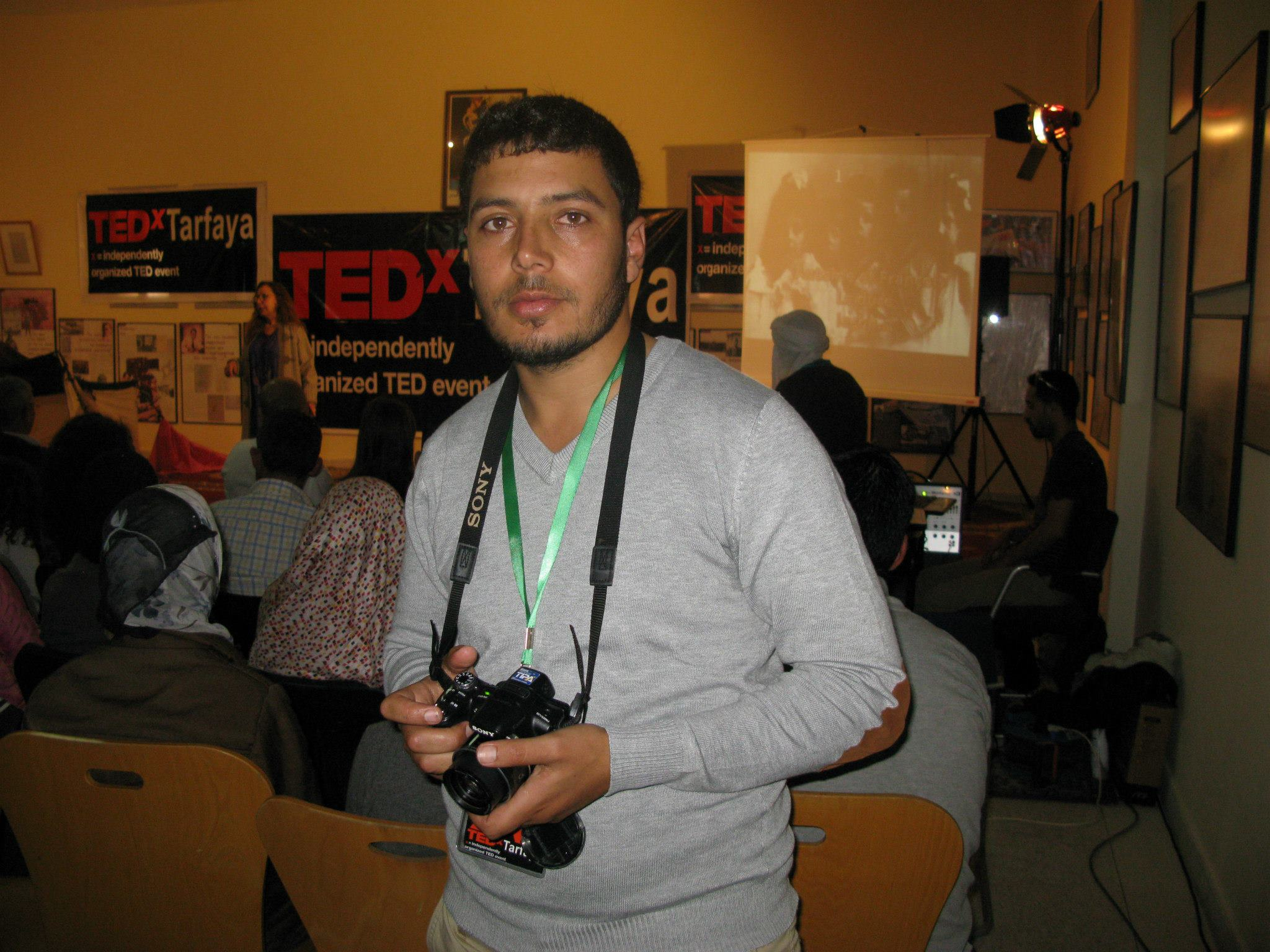 Hasan Ofane at TEDxTarfaya, Tarfaya, Morocco.